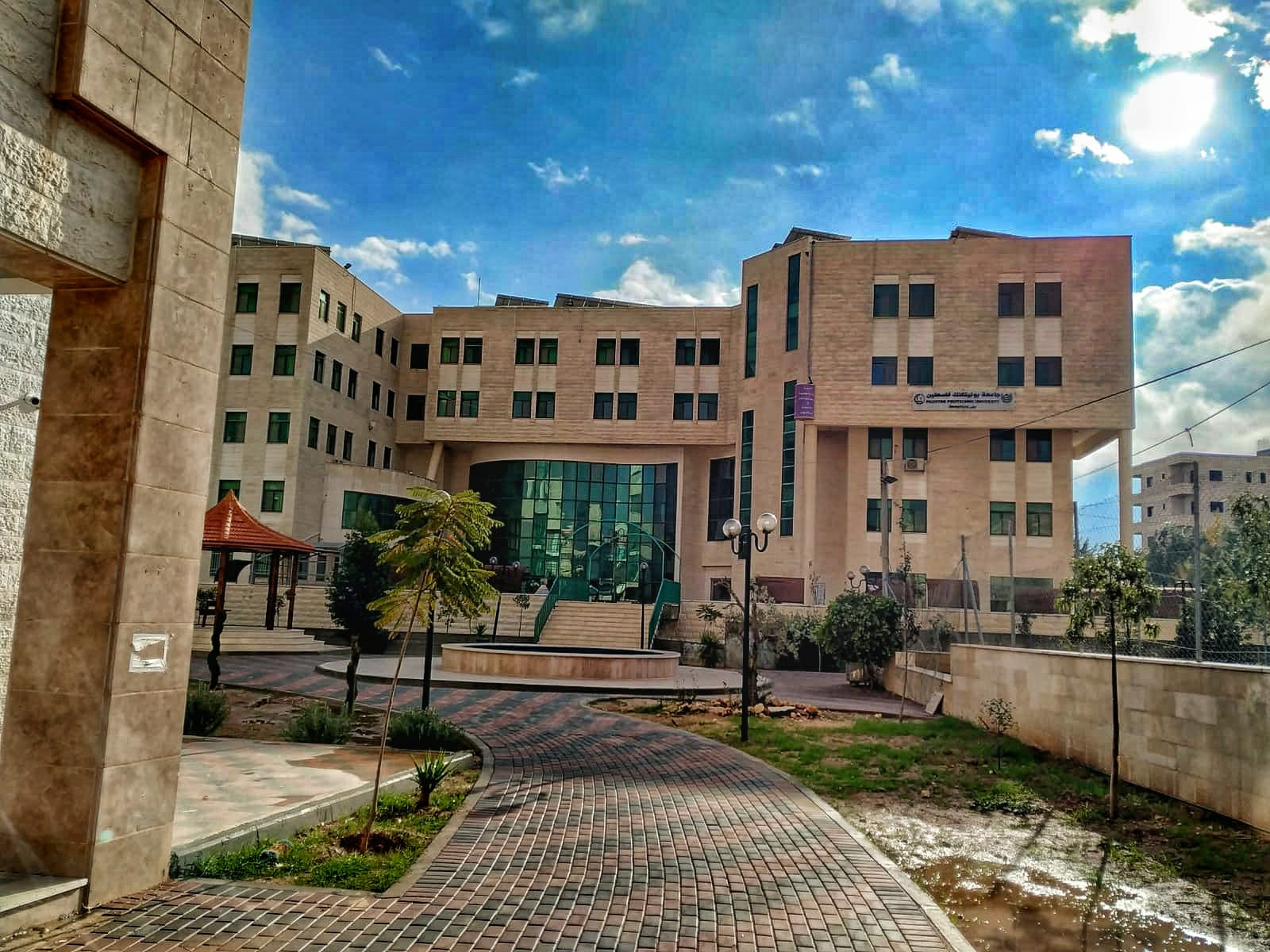 Palestine Polytechnic University (PPU) is a university located in Hebron, West Bank. The school was founded in 1978 by the University Graduates Union (UGU), a non-profit organization in Hebron. Enrolment in 2007 exceeded 5000 students.